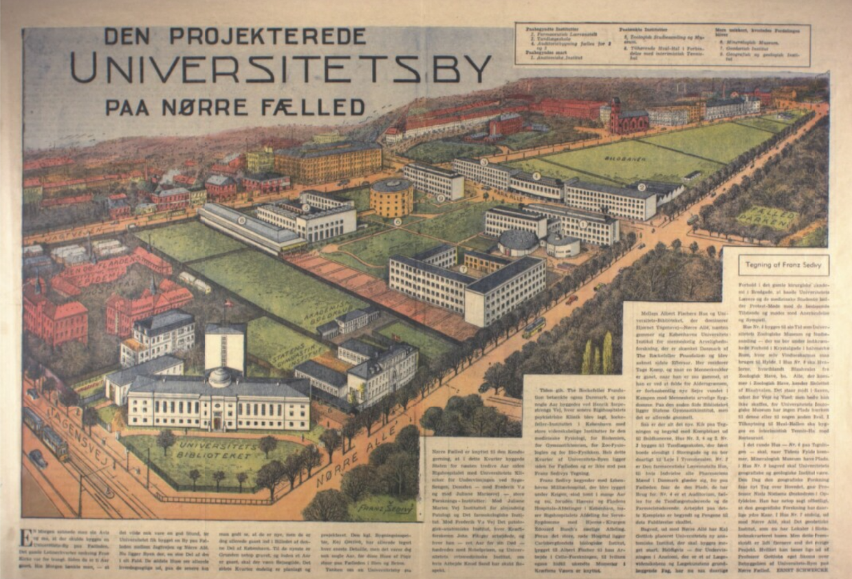 Den projekterede Universitetsby på Nørre Fælled